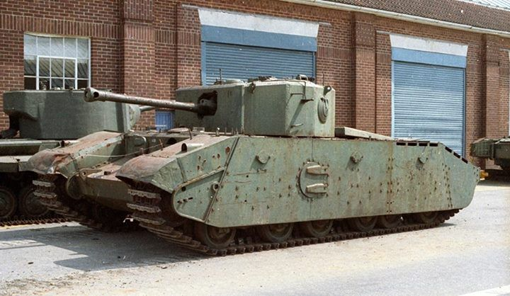 Picture of A33 Excelsior tank